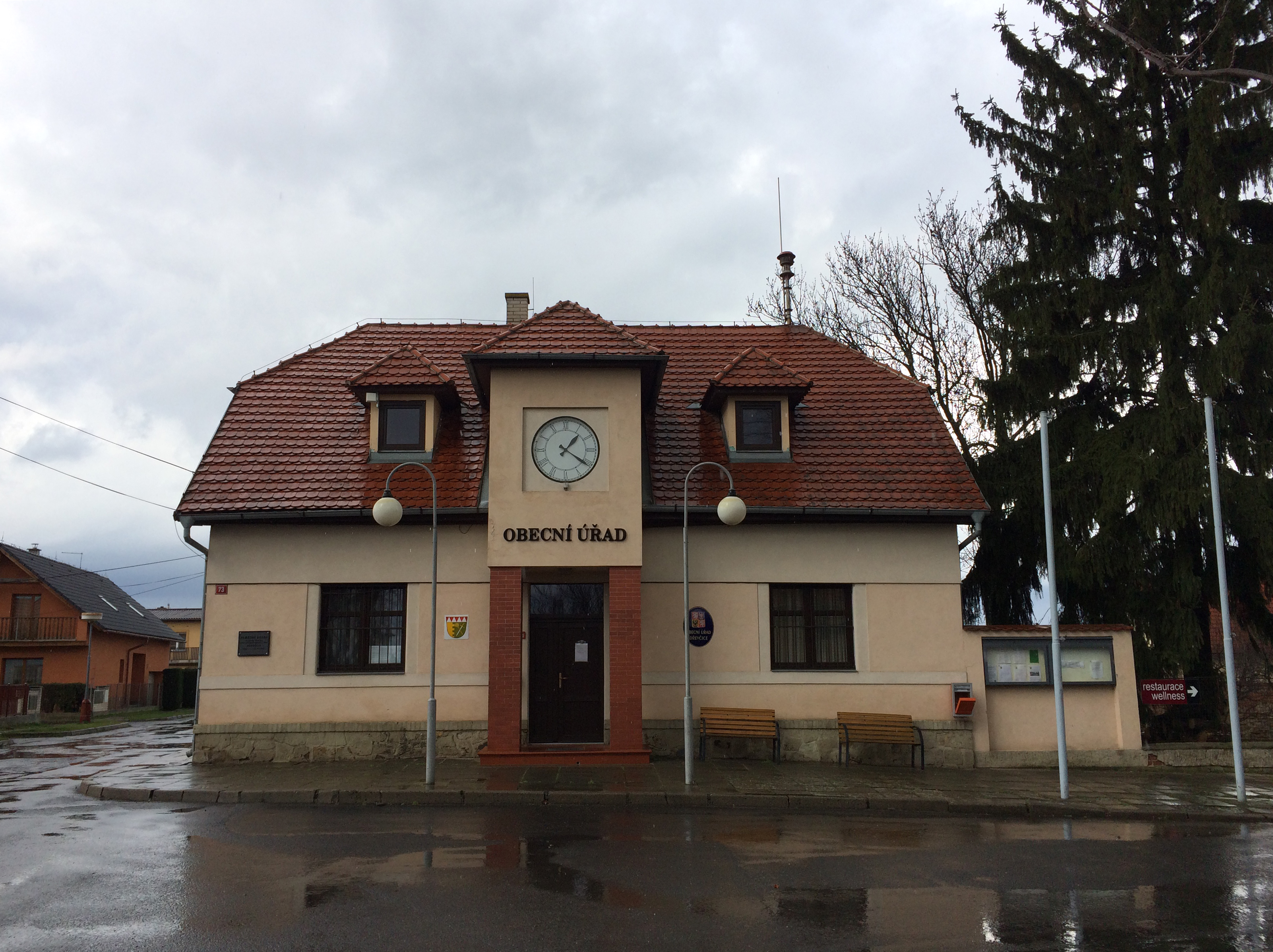 Municipal office of Dřevčice, Czech Republic.